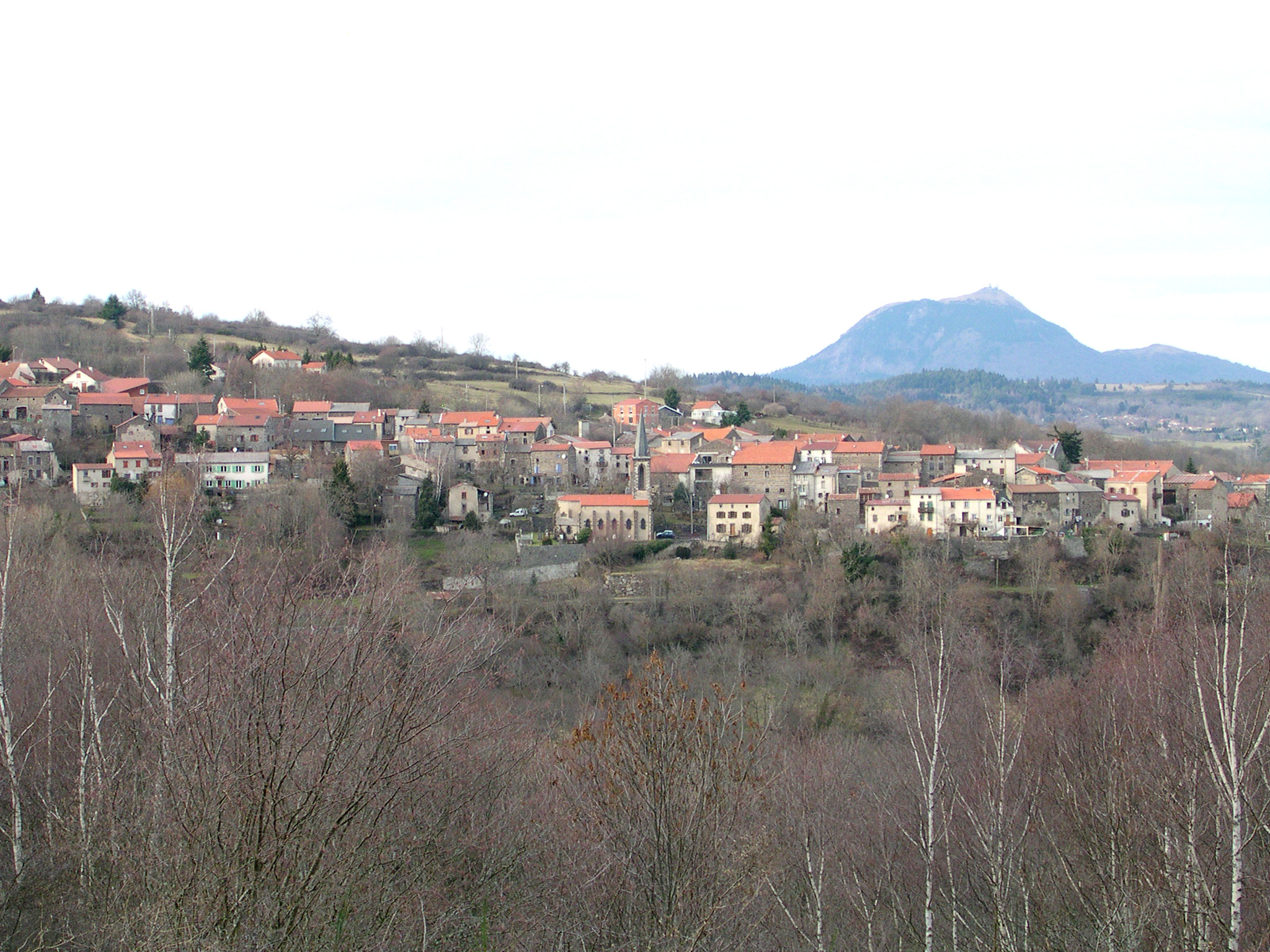 Village of Nadaillat (commune of Saint-Genès-Champanelle, Puy-de-Dôme, France) cemetery.